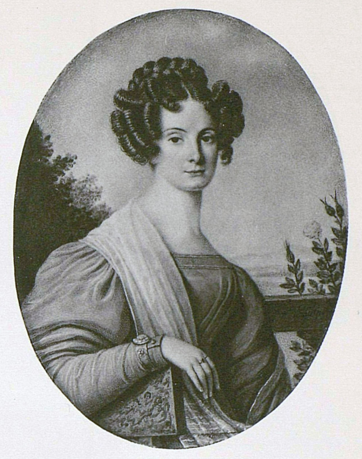 Portrait of Ekaterina Orlova (1797-1885)